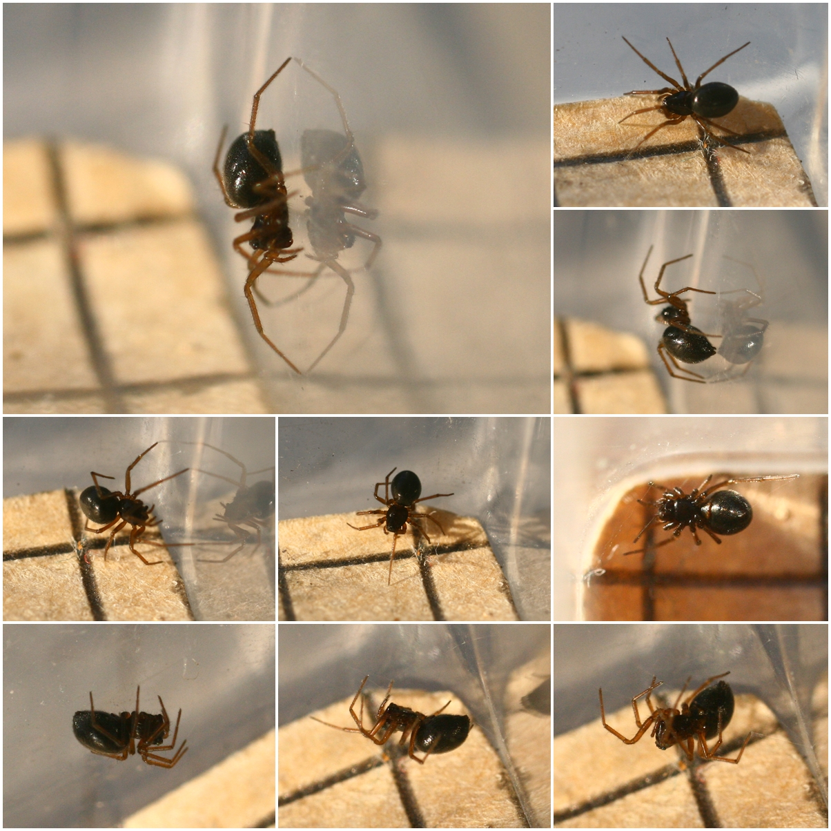 Erigone sp (Linyphiidae). Female, possibly E. atra or E. dentipalpis. Length 1.9mm. Spines on tibia (1st leg to 4th) = 2,2,2,1. First leg tarsus with trichobothrium c.45% along length. Epigyne a rounded w-shaped projection back from epigastric furrow, with pale areas at sides plus transverse ridges. From leaf litter in wood. Bricket Wood Common, Hertfordshire, 26th March 2012.